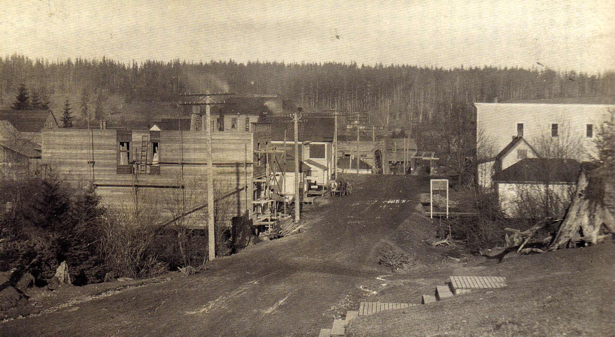 Fifth St, Courtenay BC, c1900, looking east down to bridge.